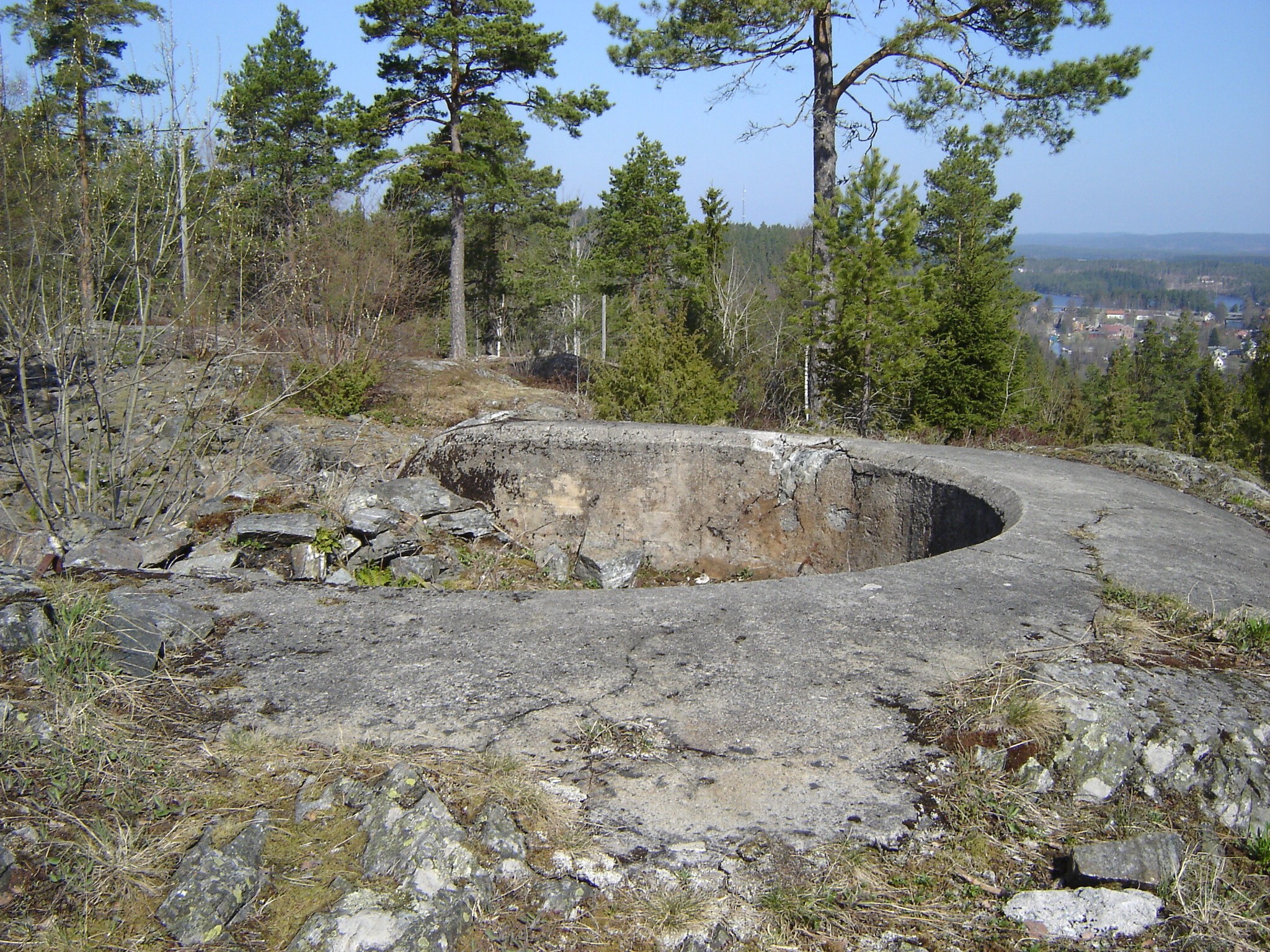 Ørje fortress battery